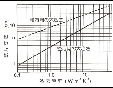 図４ 測定時間５分間の場合に必要な試料の大きさ